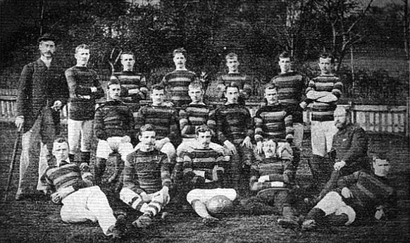 Team of Salford FC (currently "Salford Red Devils") in their original red, amber and black hoops kit. The club played rugby union code by then.